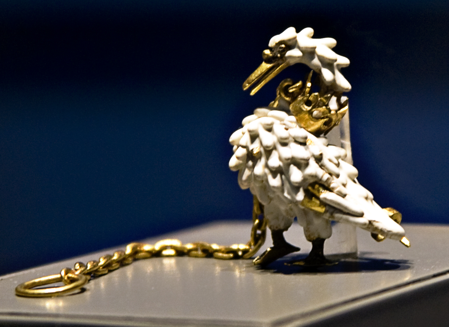 The Dunstable Swan Jewel from the British Museum. Tag on exhibit states: "The Dunstable Swan Jewel. Knights were sometimes eager to demonstrate their descent from the Arthurian knights, such as the legendary Knight of the Swan. The Dunstable Swan Jewel was found in a Dominican Priory, Dunstable. It may have been worn to indicate an allegiance to the de Bohun family or to the House of Lancaster. King Henry IV (reigned 1399-1413) took the symbol of the swan when he married Mary de Bohun in 1380. About 1400, England or France, gold, enamel. PE 1966,0703.1; purchased with a contribution from The Art Fund, The Pilgrim Trust and the Worshipful Company of Goldsmiths" See BM database entry for more details.